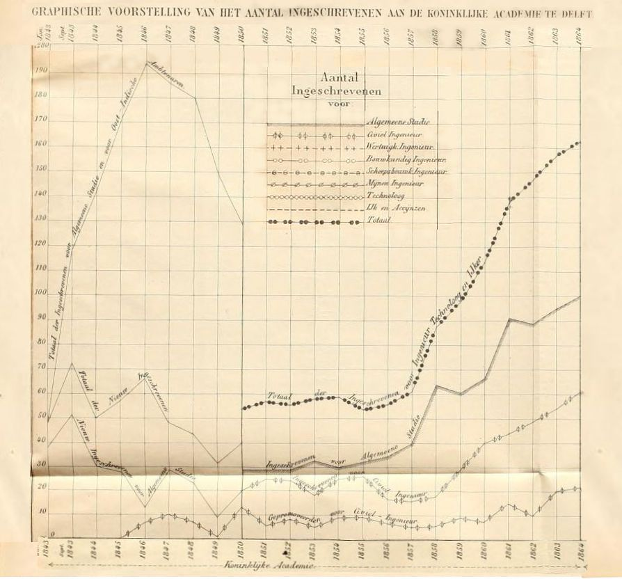 Koninklijke Academie te Delft, studentenaantallen 1843-1864